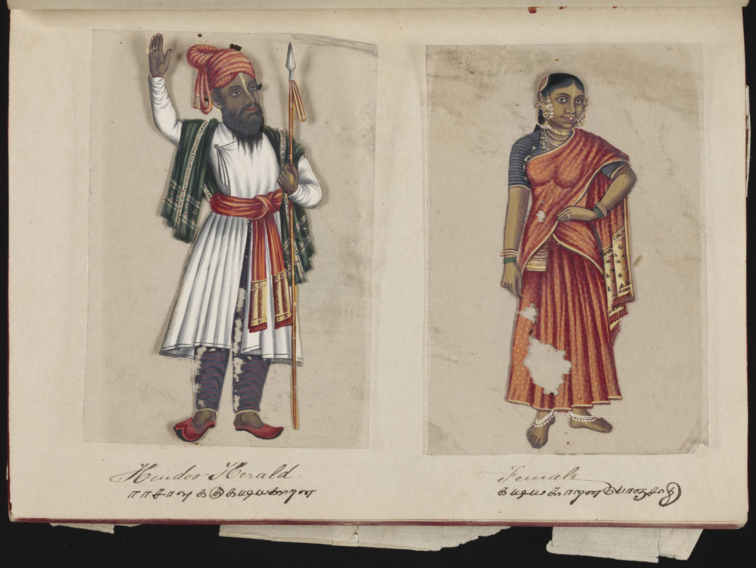 A page from the manuscript Seventy-two Specimens of Castes in India, which consists of 72 full-color hand-painted images of men and women of the various castes and religious and ethnic groups found in Madura, India at that time. Each drawing was made on mica, a transparent, flaky mineral which splits into thin, transparent sheets. As indicated on the presentation page, the album was compiled by the Indian writing master at an English school established by American missionaries in Madura, and given to the Reverend William Twining. The manuscript shows Indian dress and jewelry adornment in the Madura region as they appeared before the onset of Western influences on South Asian dress and style. Each illustrated portrait is captioned in English and in Tamil, and the title page of the work includes English, Tamil, and Telugu.